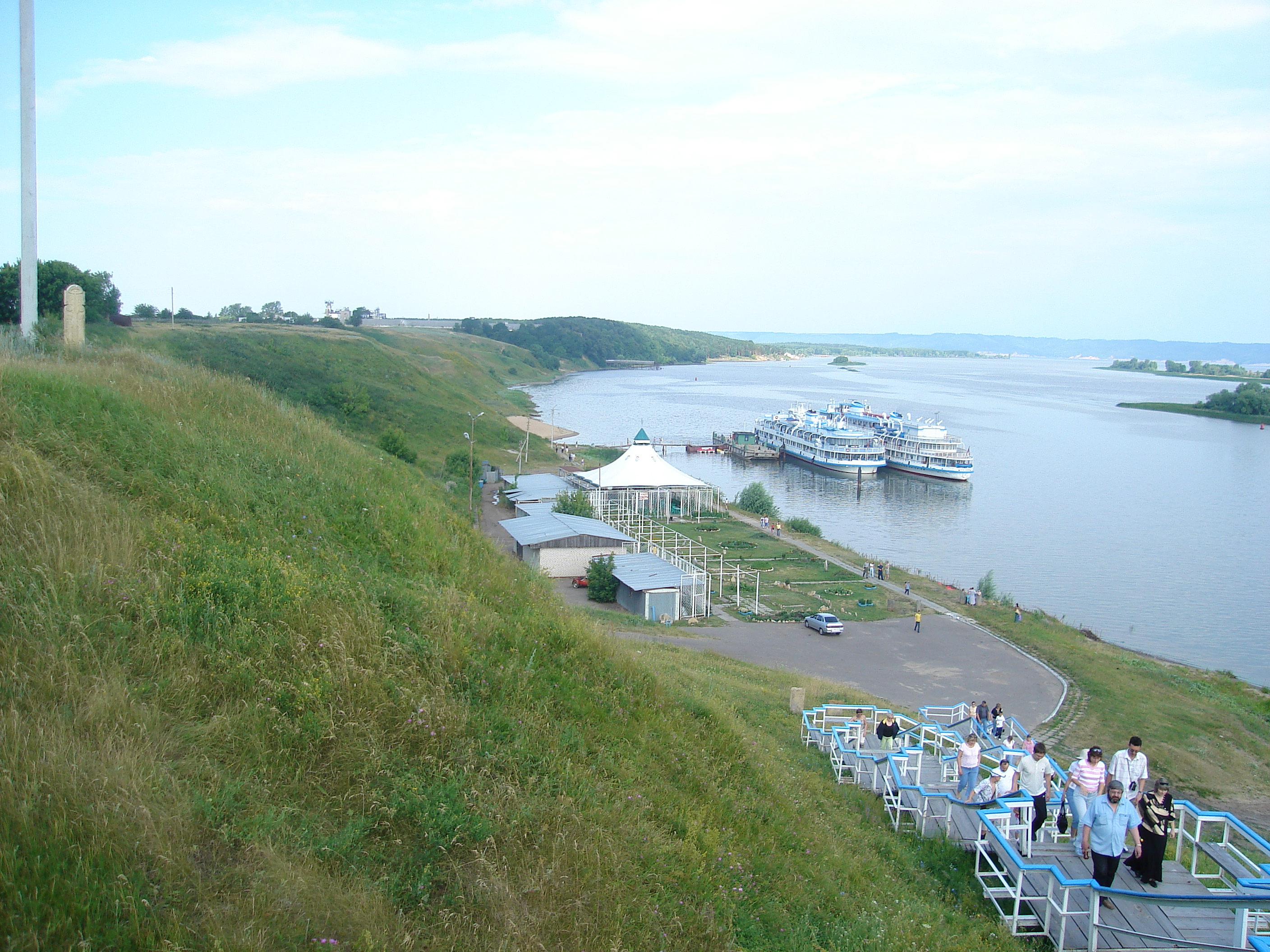 Cruise ships on the Volga River in Bolğar, Tatarstan. The ship on the left is most probably of Dunay type (project 305)